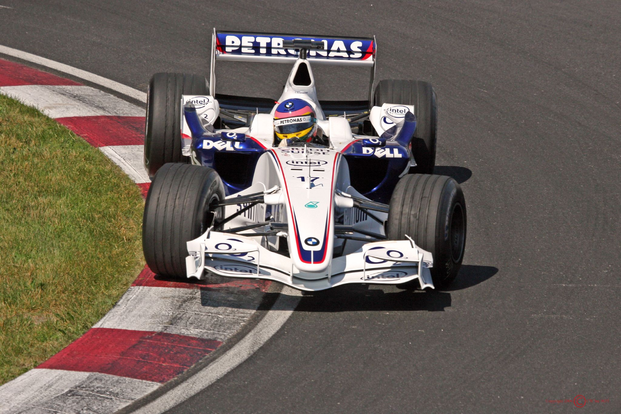 Jacques Villeneuve driving for BMW Sauber at the 2006 Canadian Grand Prix.